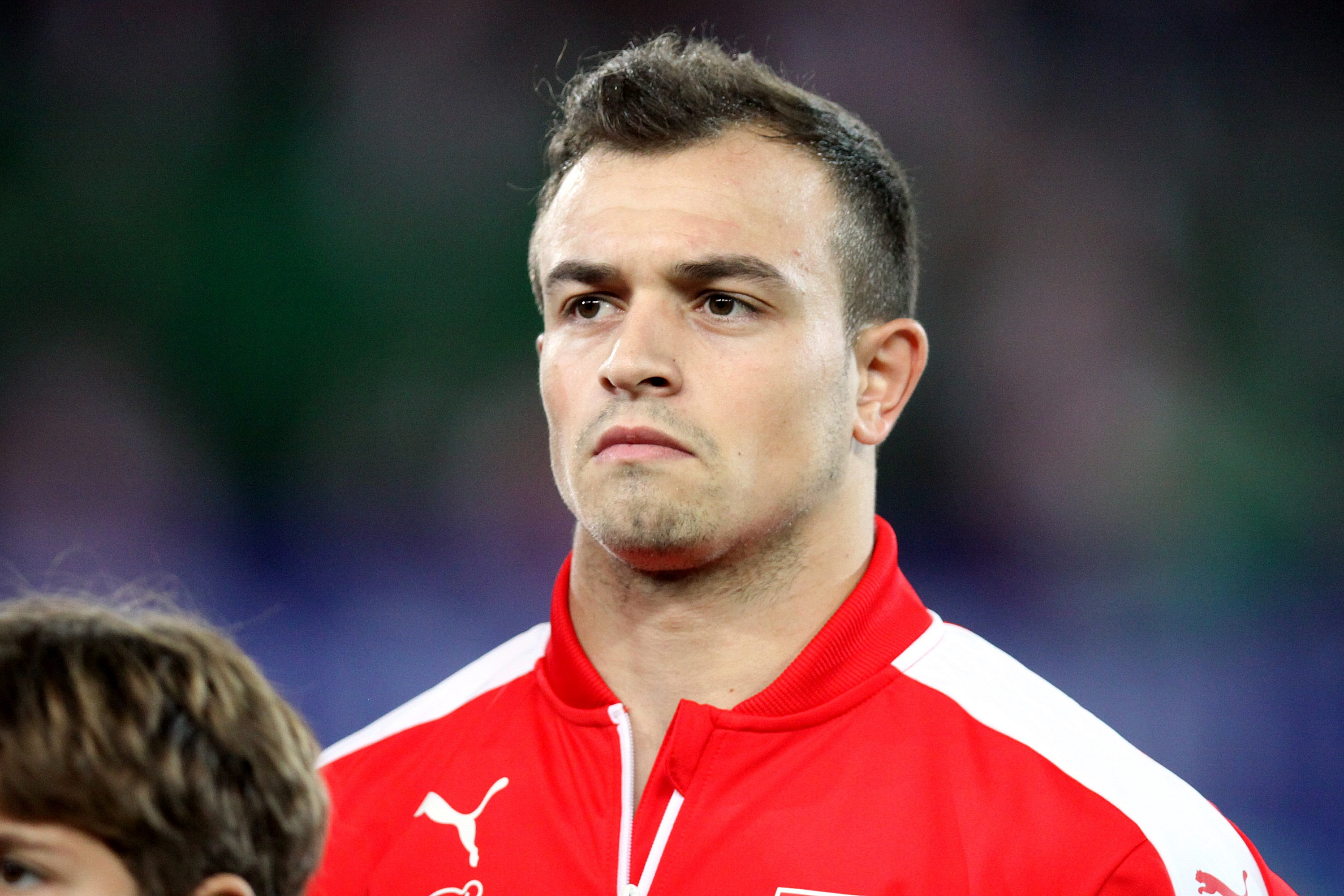 Friendly match – Austria (red shirts) vs. Switzerland (white shirts) 1-2 (1-2) – 2015-11-17 in Vienna, Ernst-Happel-Stadion – The photo shows Xherdan Shaqiri (Switzerland).